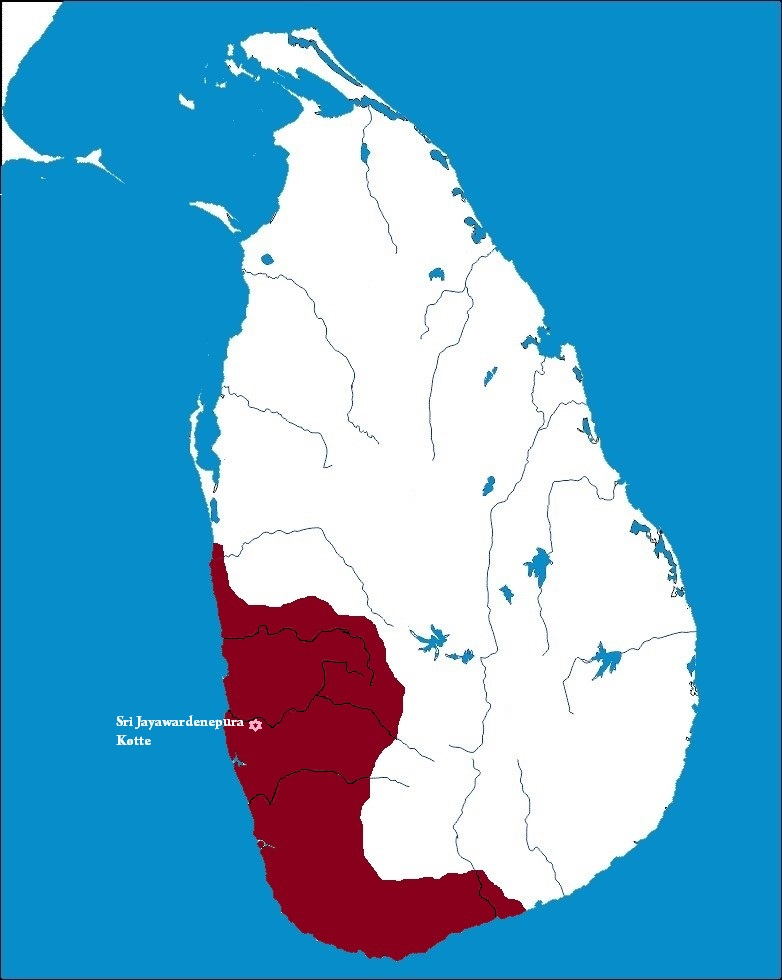 Kingdom of Kotte